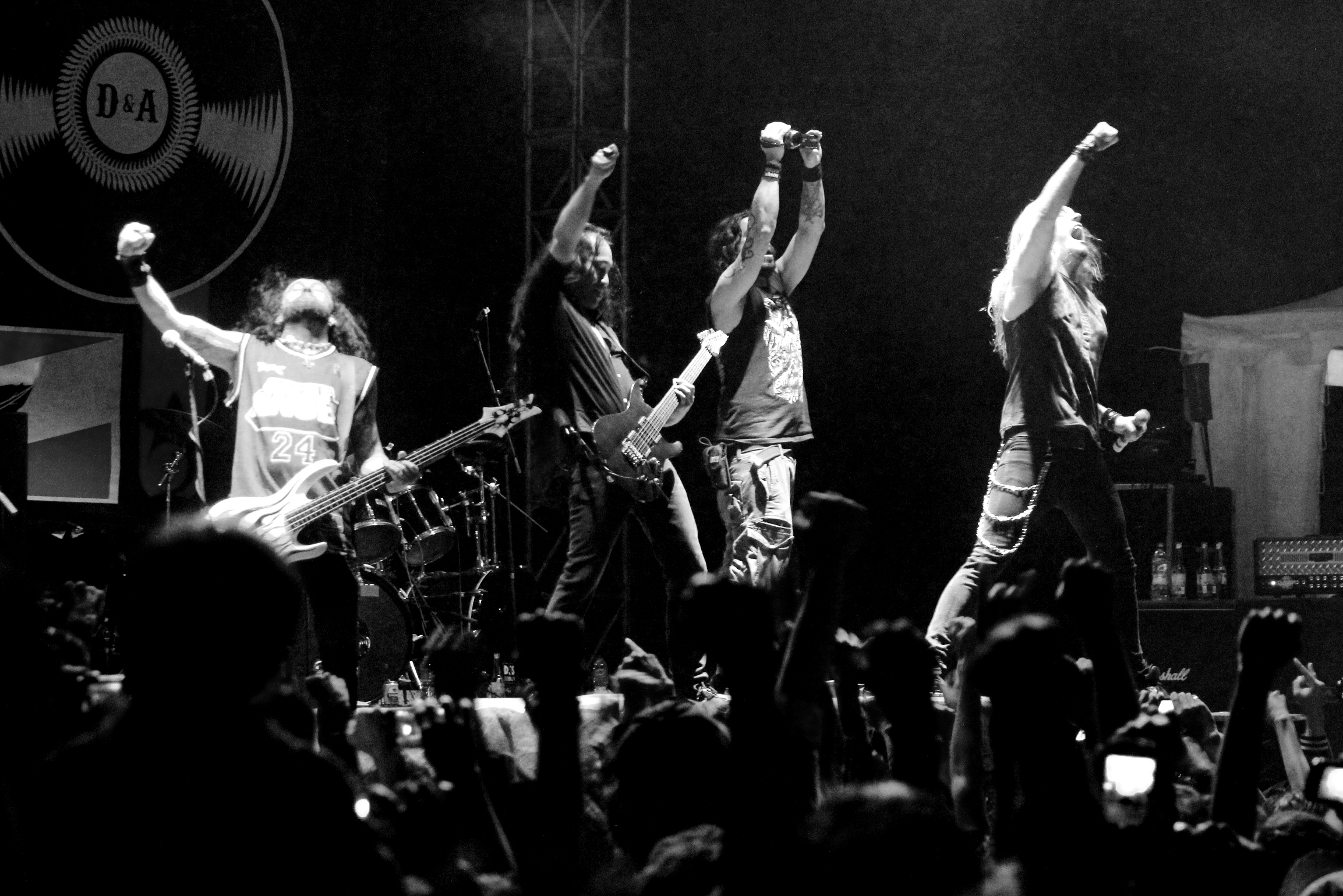 DragonForce performing in Indonesia in 2013